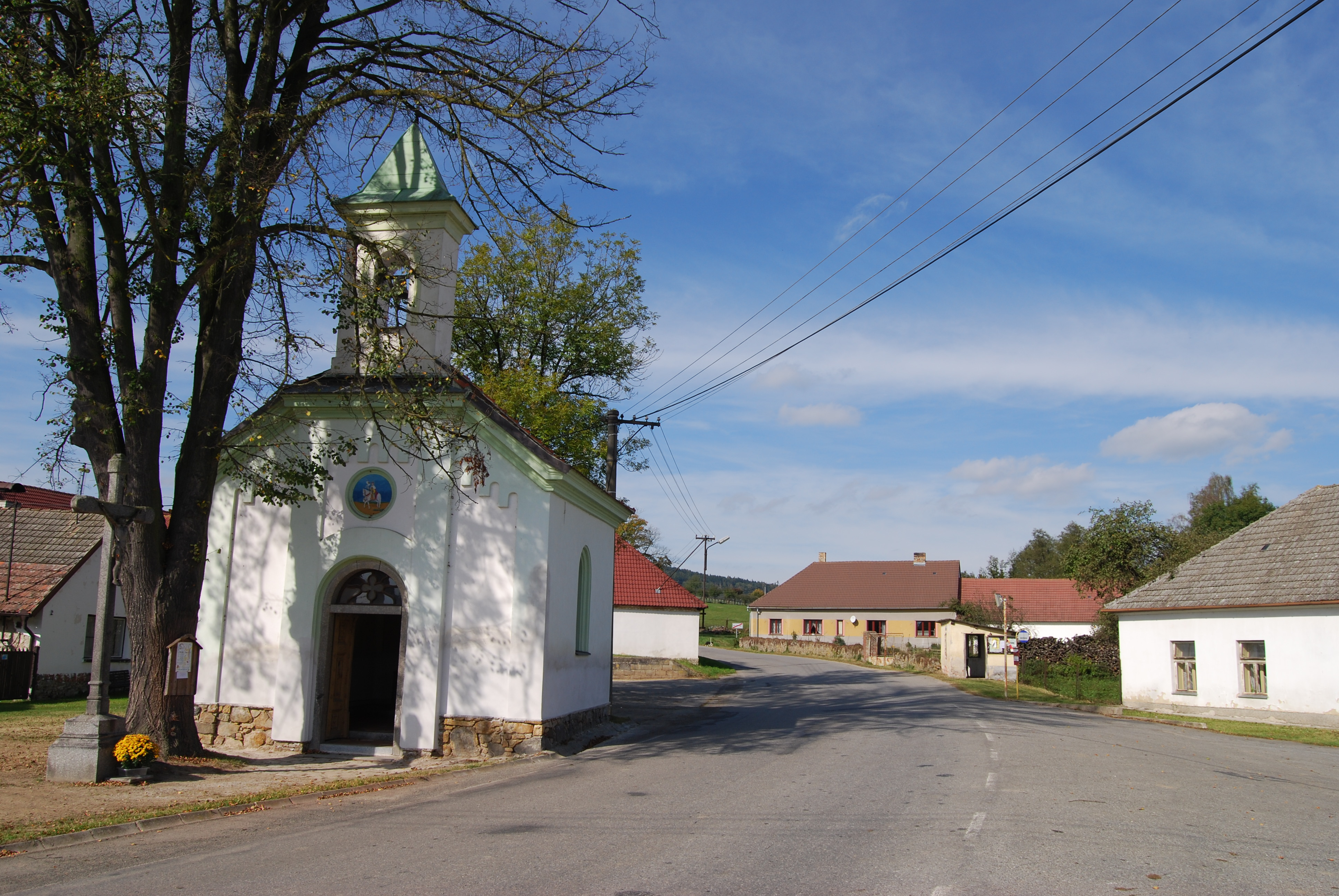 Budyně village in Strakonice District, Czech Republic. Chaple